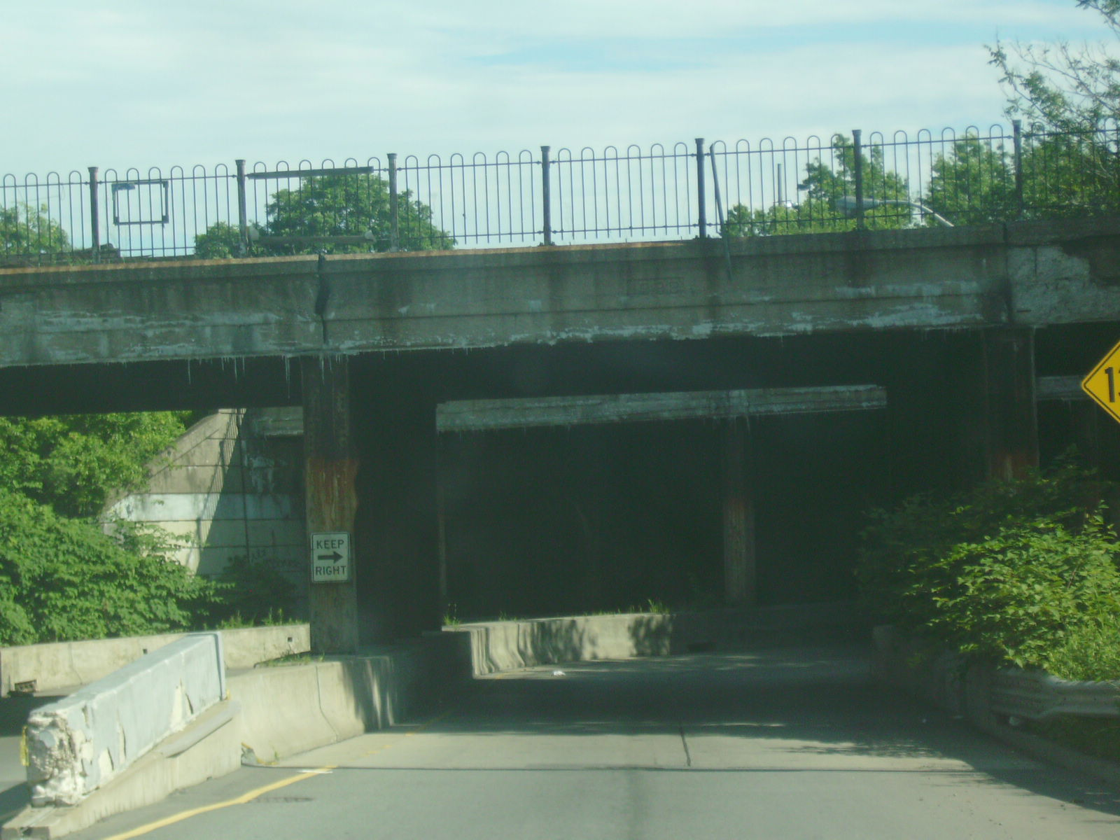 Dowd Avenue in Elizabeth, New Jersey heading southbound under two state-maintained bridges built in 1926.